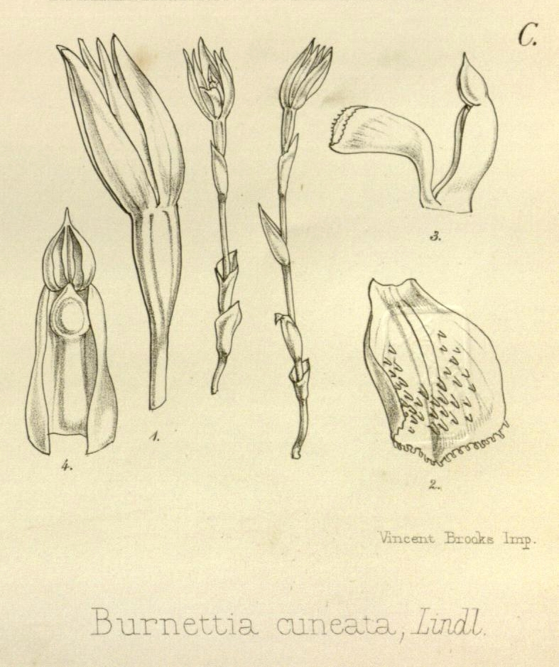 vol. 3 pt. 2 plate 107 of Hooker's Flora Antarctica